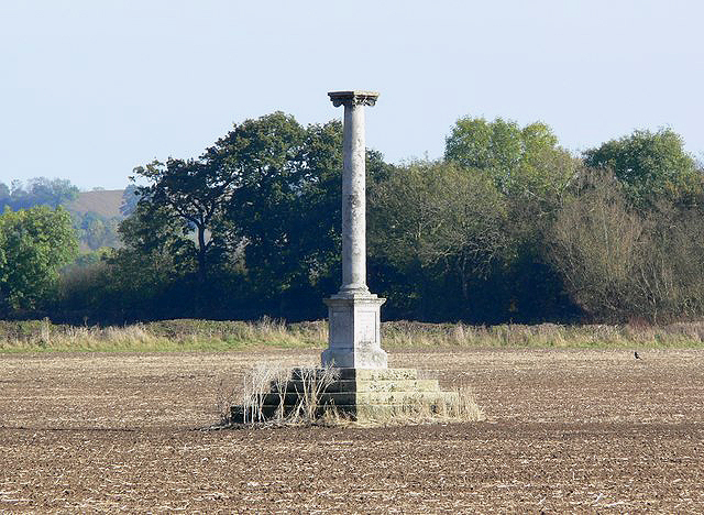 Monument at the point where aviation pioneer Percy Pilcher crashed his glider leading to his death. the monument is located in a field just east of Stanford Hall in Leicestershire.